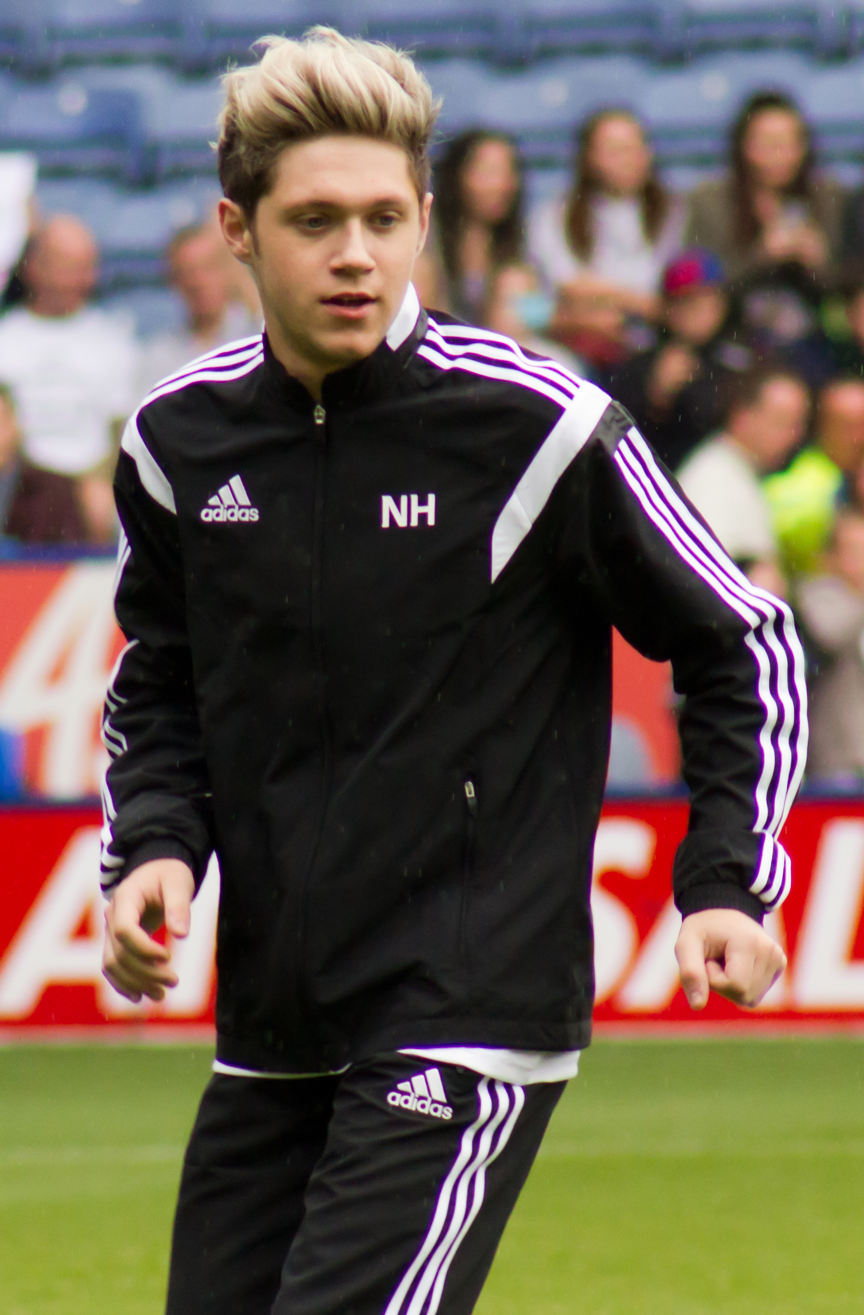 Niall Horan at Niall Horan Charity Football Challenge